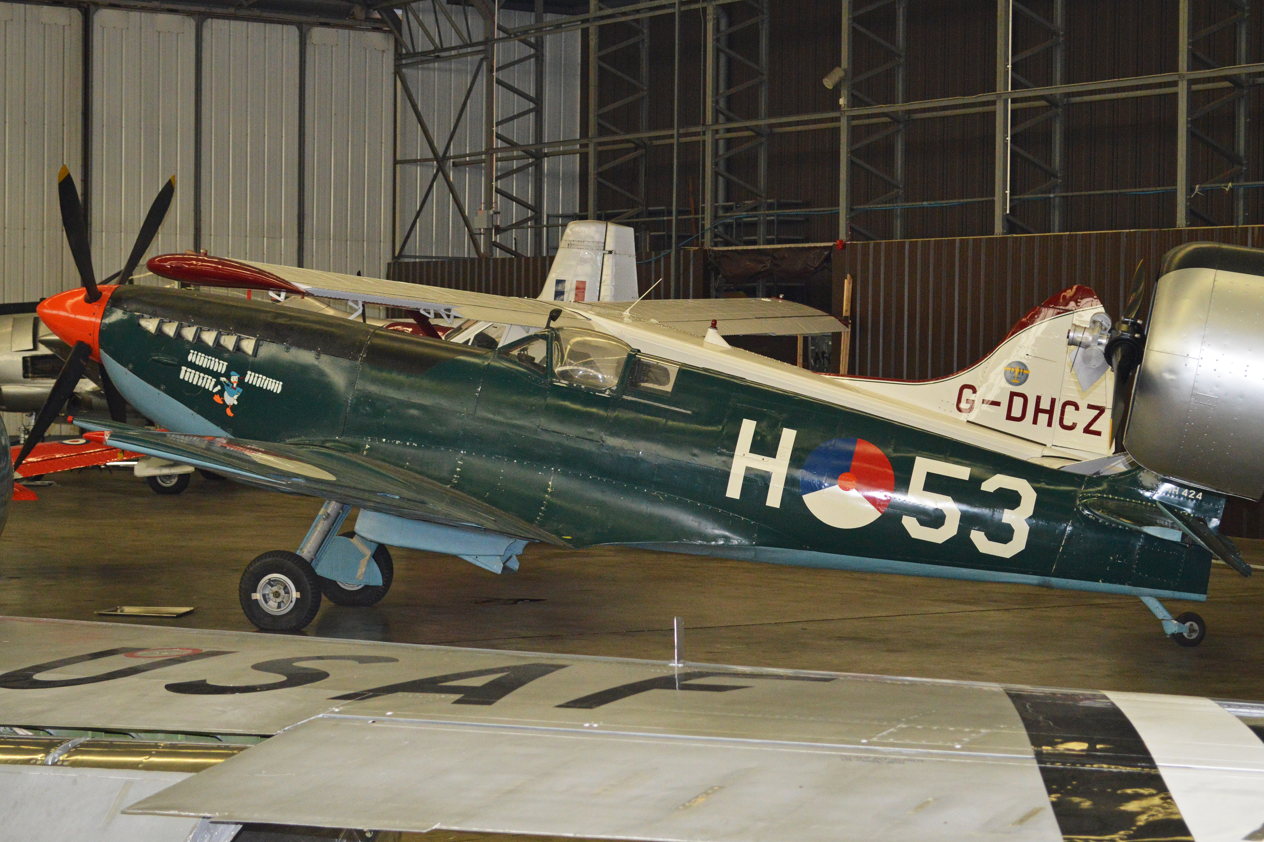 c/n CBAF.IX970. Actual RAF serial 'MJ271'. Later saw Dutch Air Force service as 'H-8'. After retirement in 1950, it passed to the Aviodrome museum for display. Painted in false markings as 'H-53', it was initially on display at Amsterdam's Schipol Airport and later at Lelystad after the museum moved. It later became part of a deal involving a Fariey Firefly and is now with ARCo / Historic Flying, waiting it's turn for restoration to flight. It is seen stored in Hangar '2-North' of the Imperial War Museum, Duxford. UK. 12-7-2014